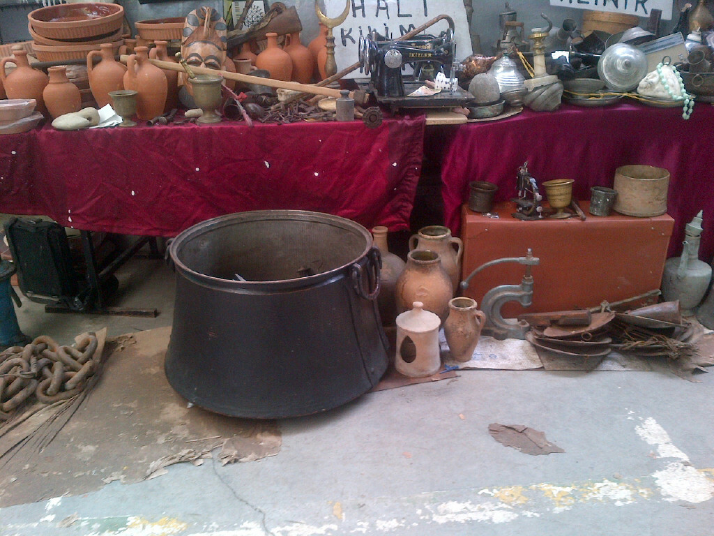 Turkish kazan at a flea market in Ankara.